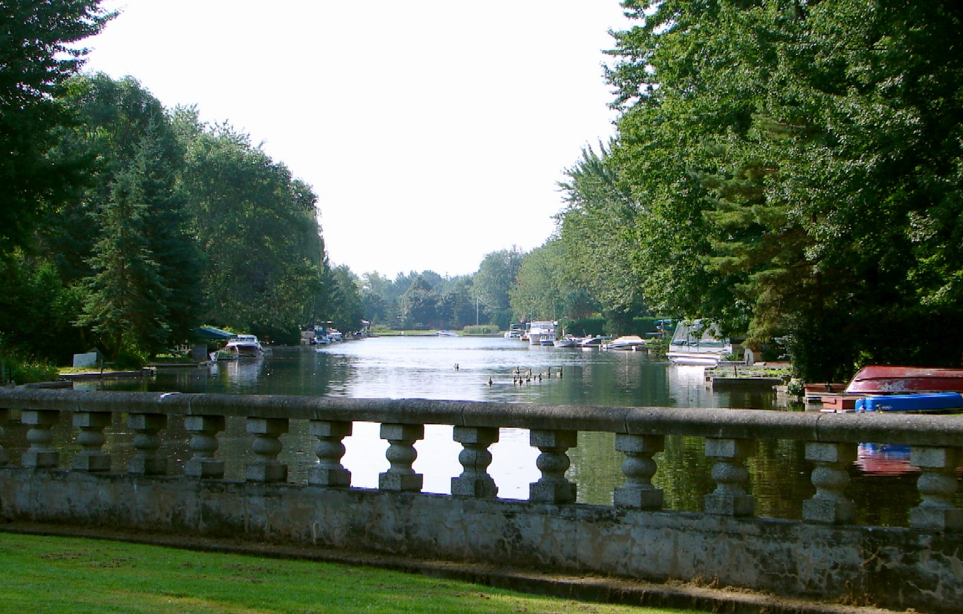 Lagoon City (Ramara Township), Ontario, Canada